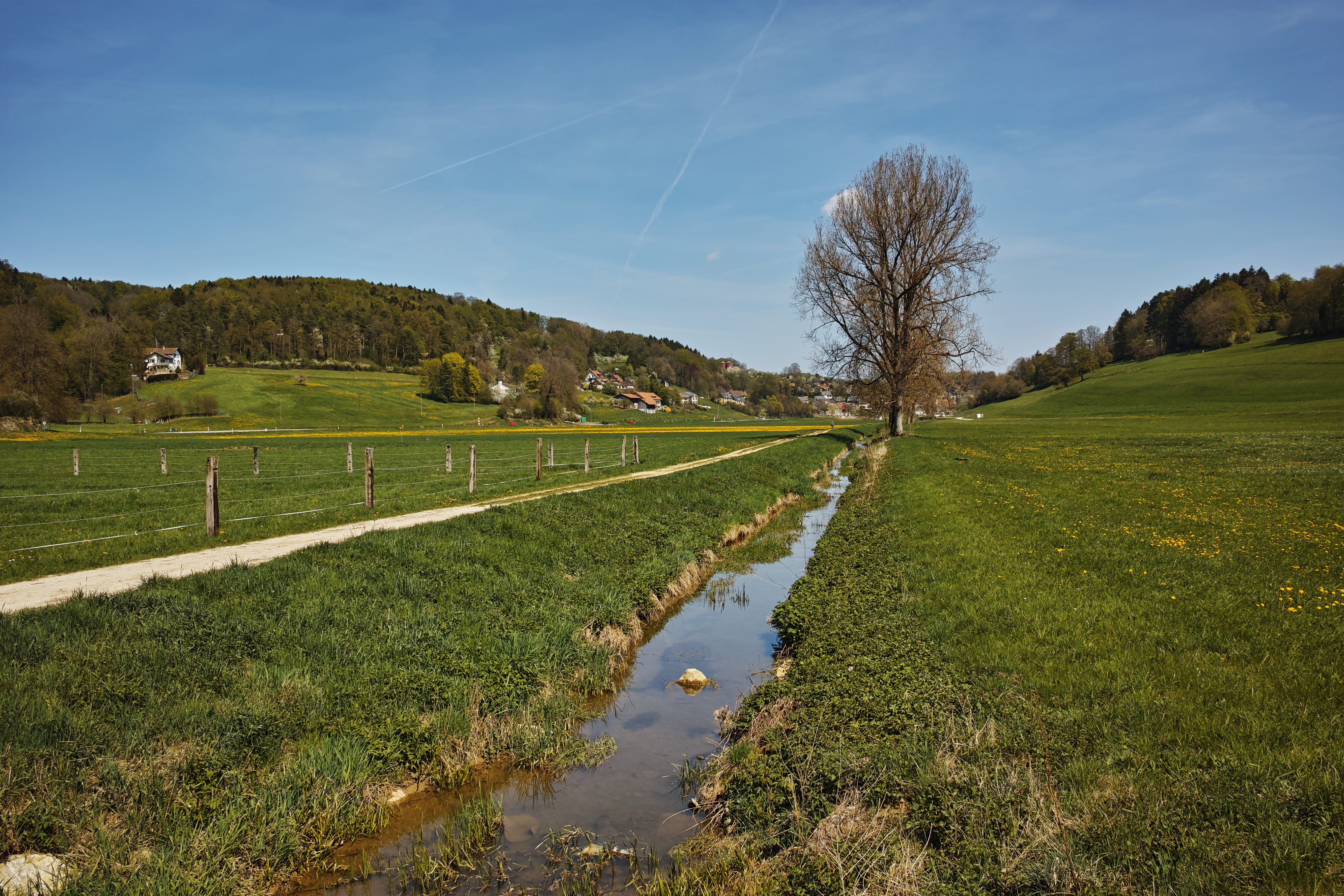 Area of former Lake Seewen (drained in 1589) in Seewen, Canton of Solothurn, Switzerland. Stream "Seebach".